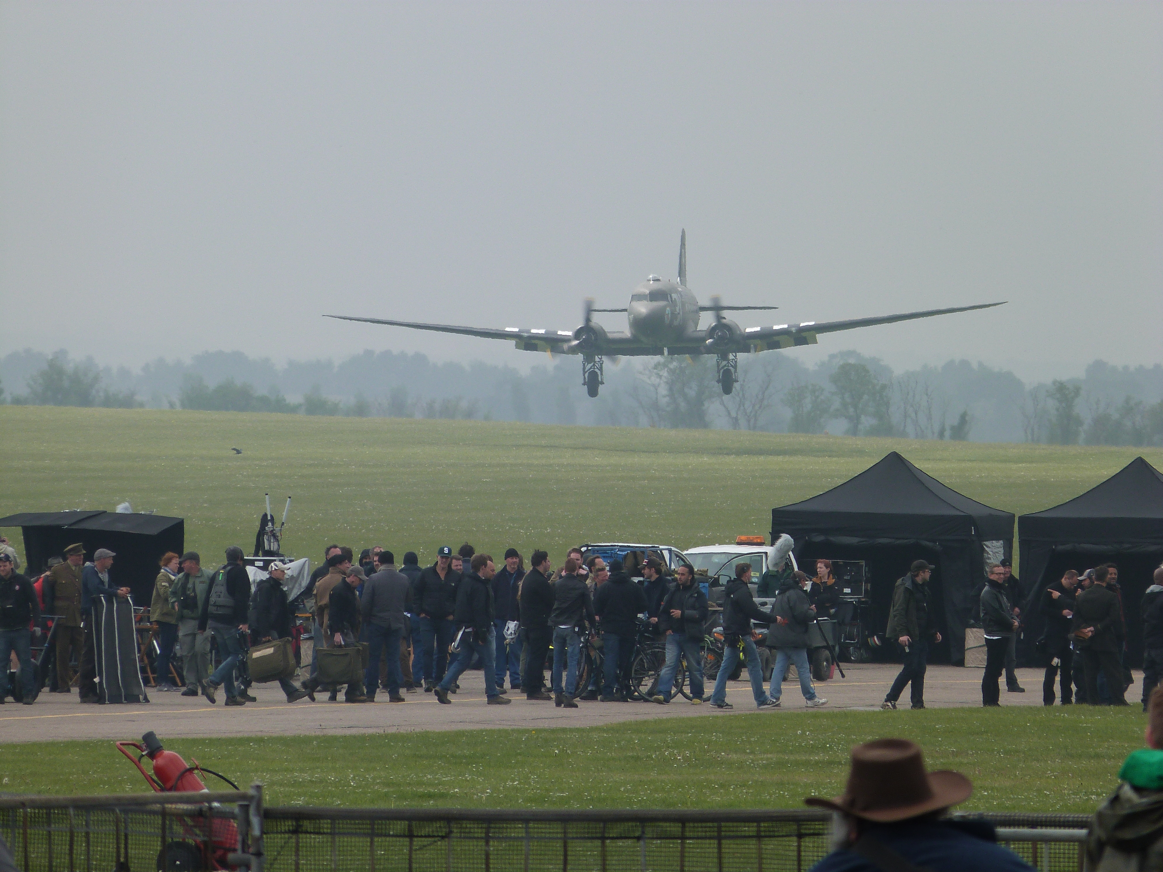 Douglas C-47 Skytrain landing in front of film crew at Duxford Air Field for filming of 'Monuments Men'.